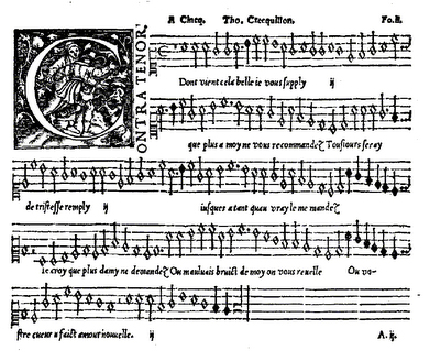 Thomas Crecquillon's score